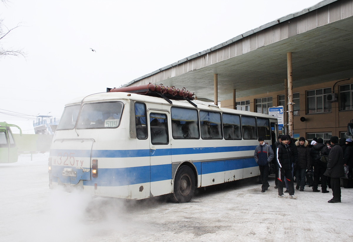 A bus in Tomsk, Russia.